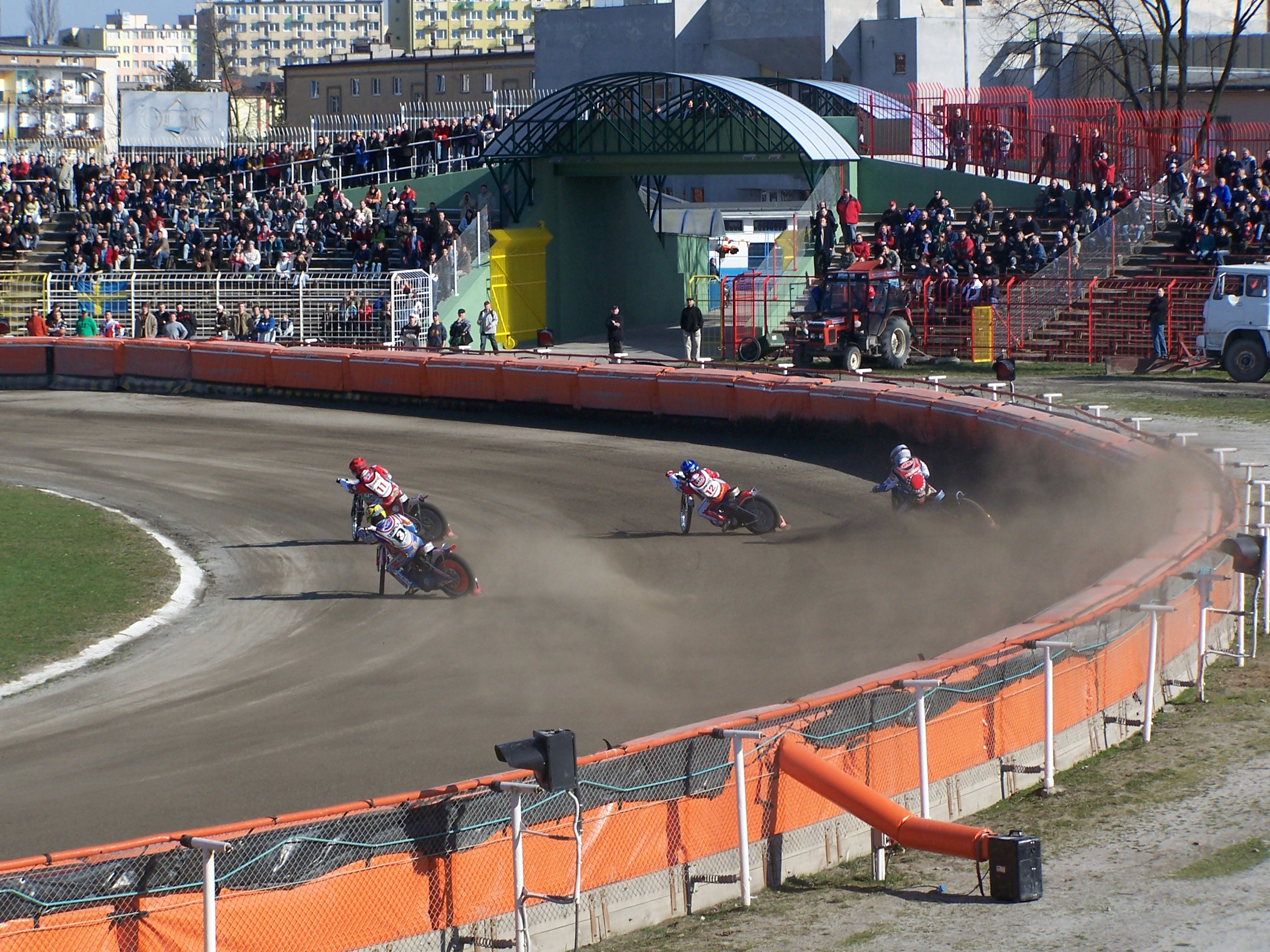 1st arc